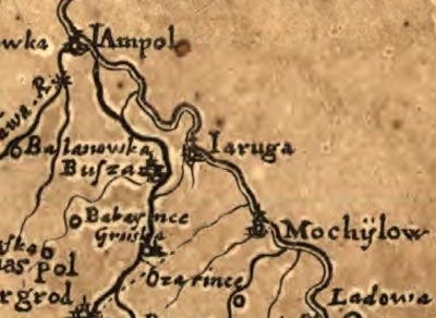 Part of Beauplan's map showing Busza (present Busha, Ukraine) on the Dnister river. Note that south is up on this map.